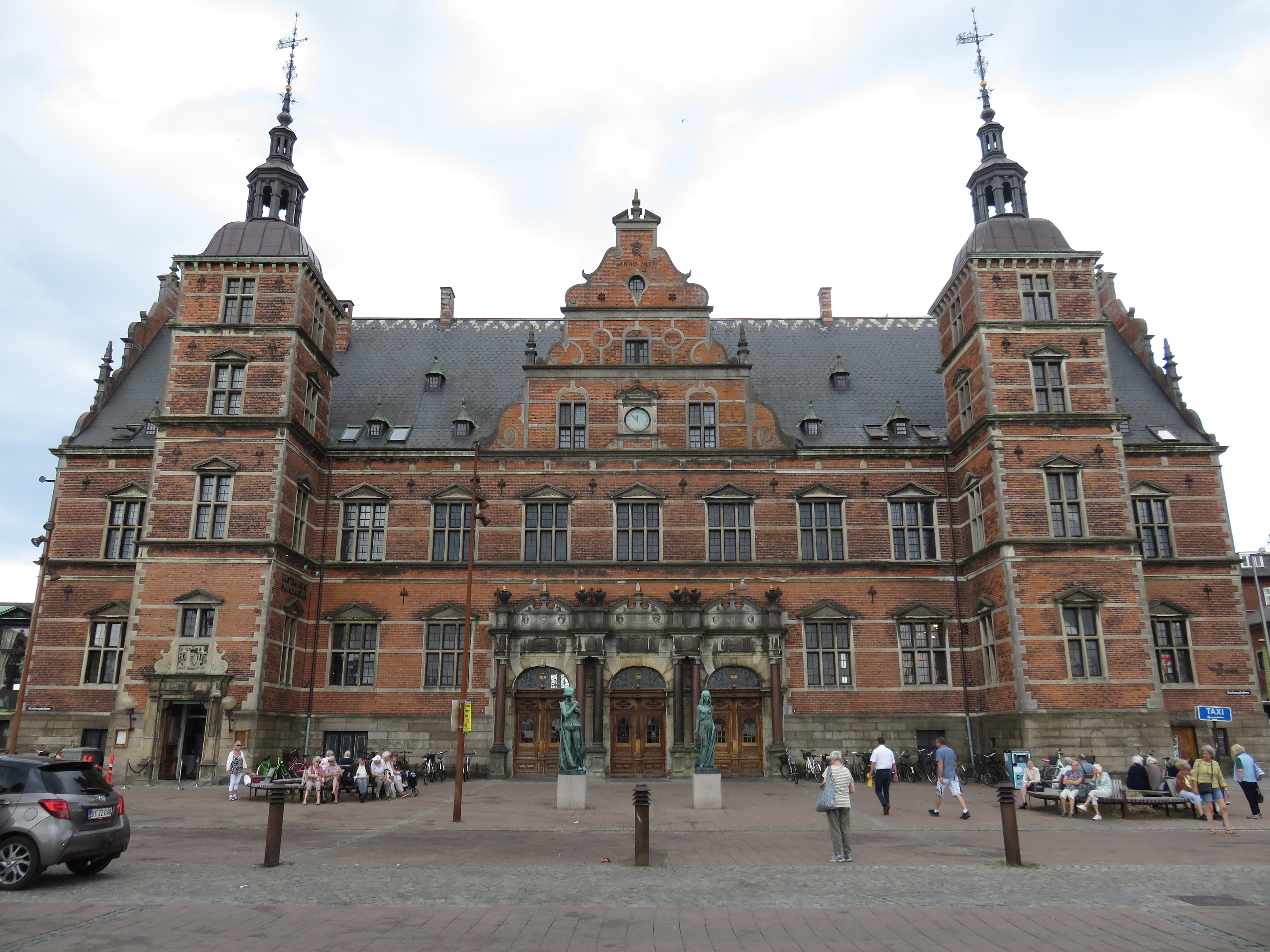 Helsingør railway terminal in Helsingør, Denmark in 2018